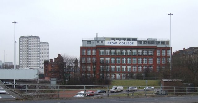 Stow College Viewed from the Great Western Road flyover above the M8.